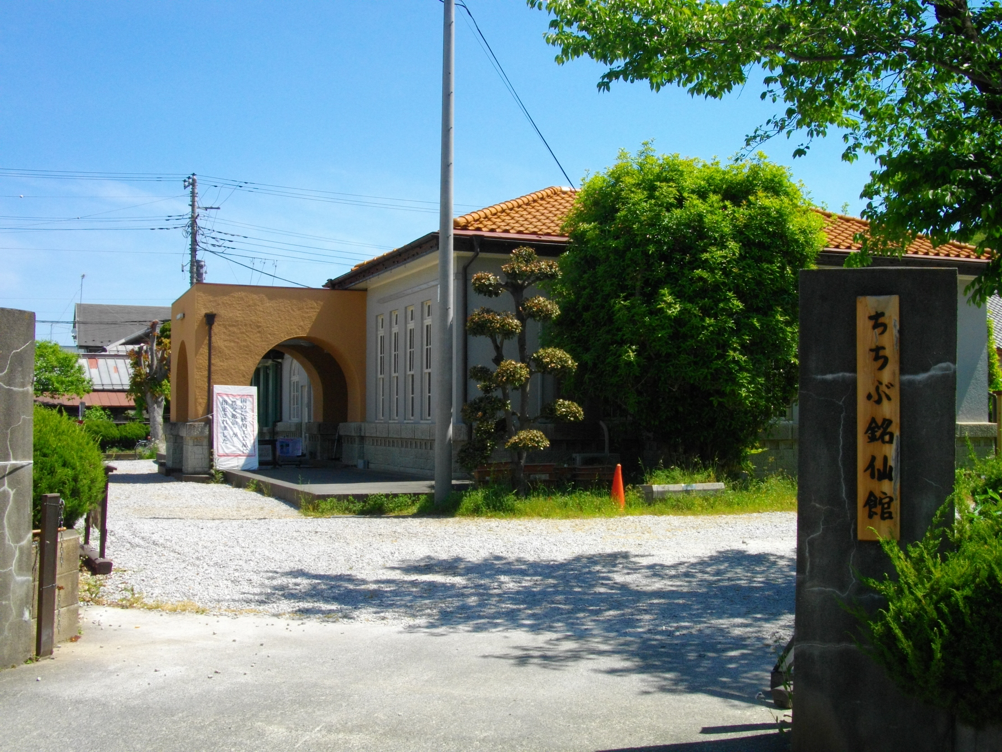 Chichibu Meisenkan (Chichibu Silk Textile Museum)